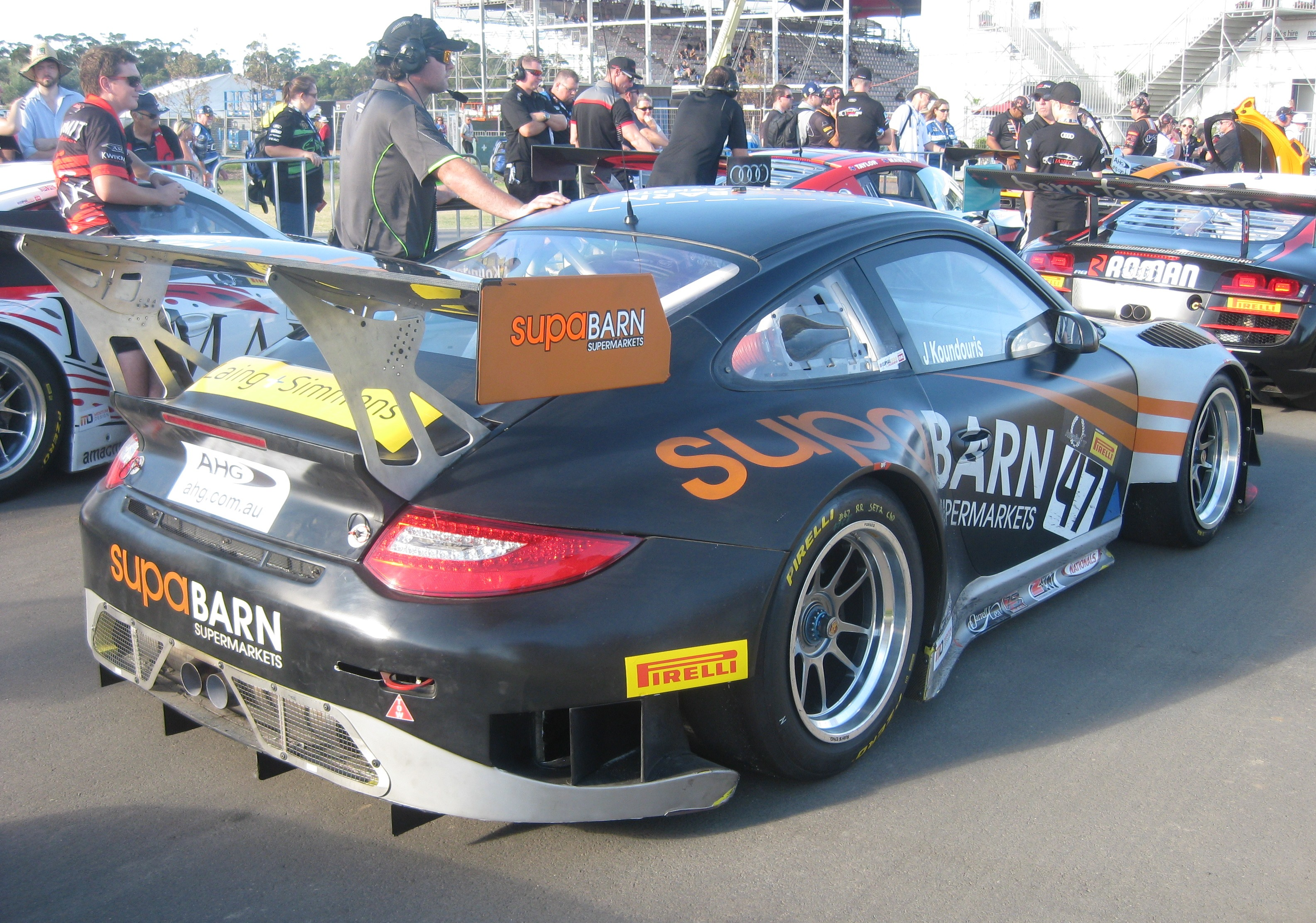 The Porsche 911 GT3-R Type 997 of James Koundouris at the opening round of the 2015 Australian GT Championship